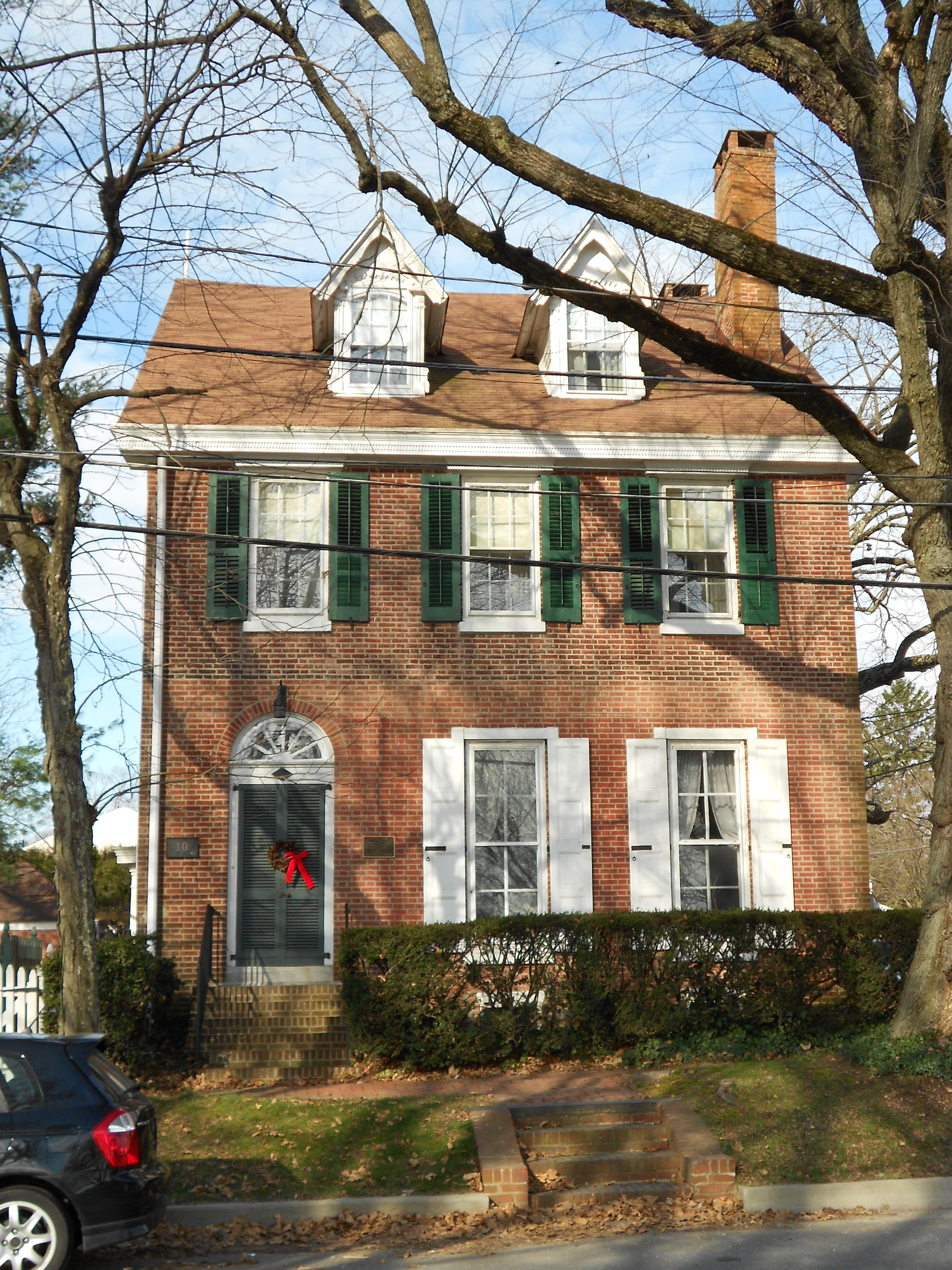 Sutton House on the NRHP since April 24, 1973, at Broad and Delaware Sts., St. Georges, New Castle County, Delaware. Also in the North Saint Georges Historic District on the NRHP since August 22, 1995 .